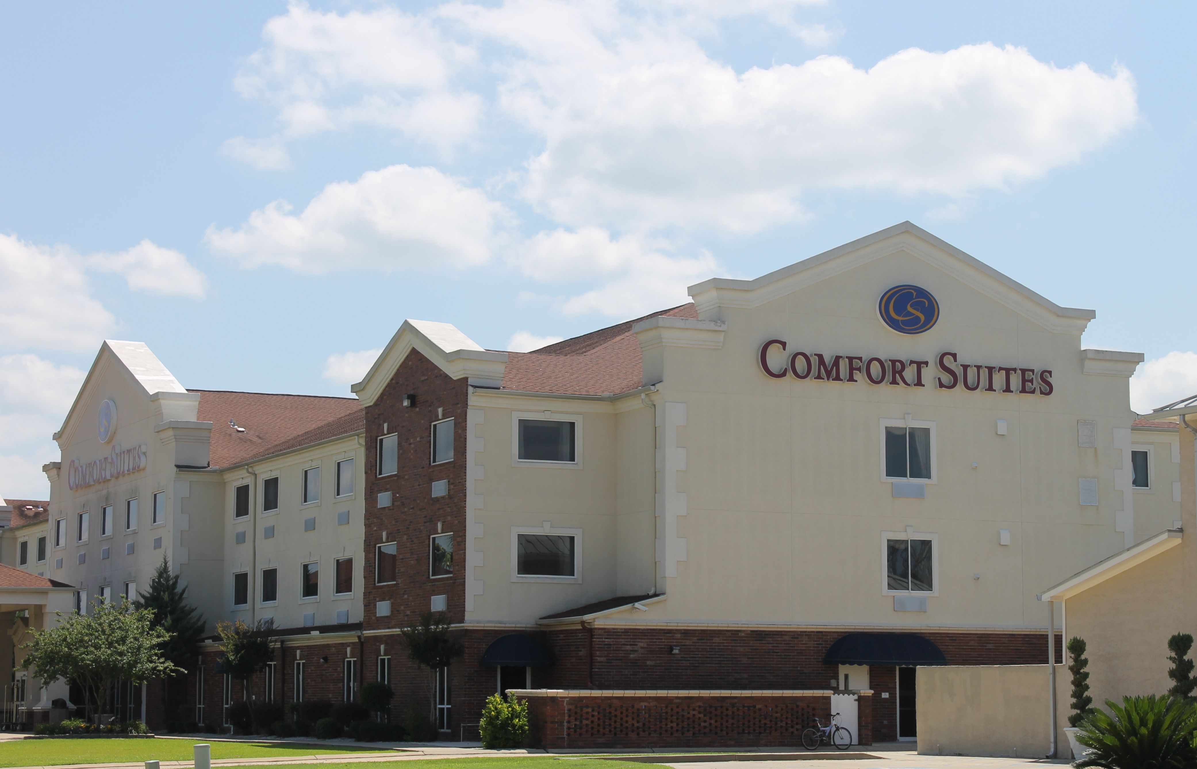 Comfort Suites on Mississippi River in Vidalia, LA